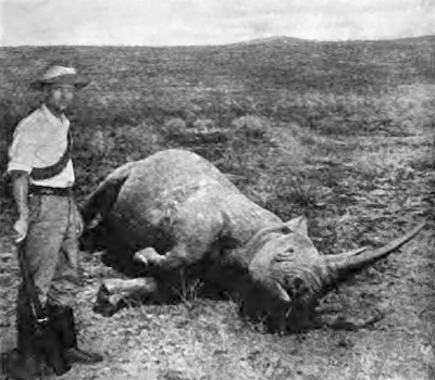 Name of article: Hunting African Big Game, by Capt Fritz Duquesne. Fritz Joubert Duquesne stands next to his killed rhino. Caption reads: Square Muzzeled or White Rinoceros. This is the rarest of East African Game.